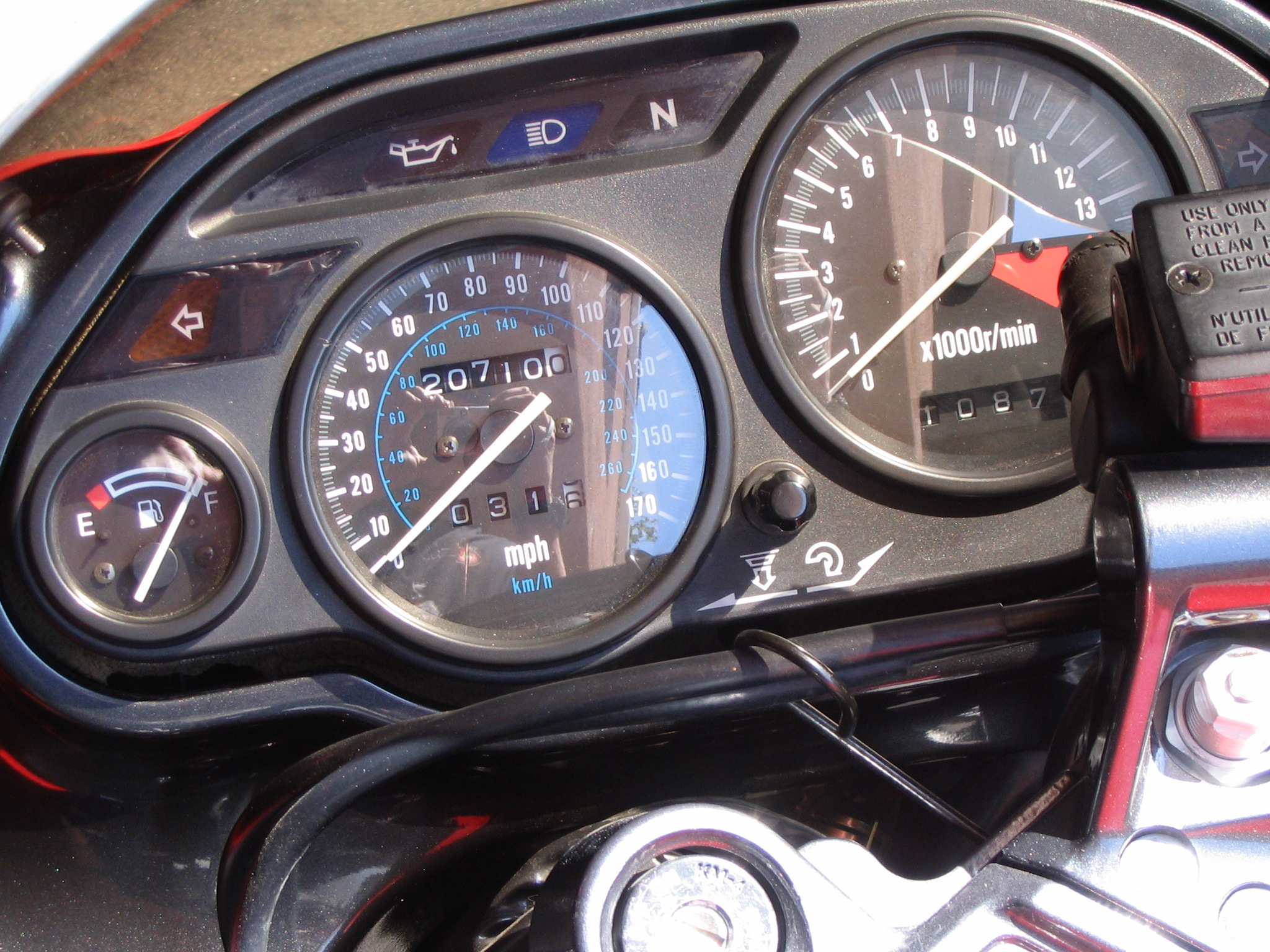 ZX6E instrument cluster. Note the fuel gauge.